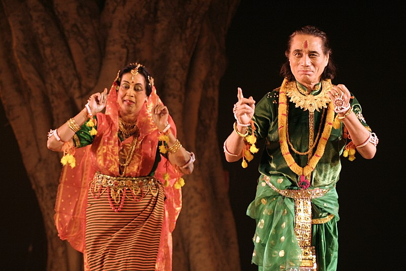 This photo was taken during Delhi International Arts Festival on 1st December 2008 with artists from various regions .Vande matram is an integrated performance using nine classical dance forms of India - Bharatanatyam (Prathibha Prahlad) Odissi (Ranjana Gauhar), Kuchipudi (Jayarama Rao and Vanashree Rao), Kathak (Rajendra Gangani), Manipuri (R.K. Singhajit Singh and Charu Sija Mathur), Kathakali (Sadanam Balakrishnan), Mohini Attam (Jaya Rama Rao), Sattriya (Sharodi Saikia) and Chhau (Shashidhar Acharya).Vande matram was coceived by Pratibha Prahlad.